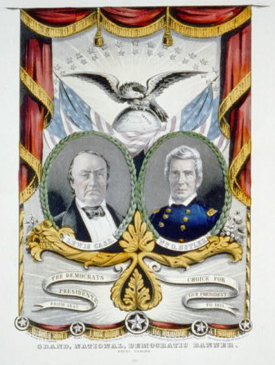 Campaign poster showing head-and-shoulders portraits of Lewis Cass and William O. Butler